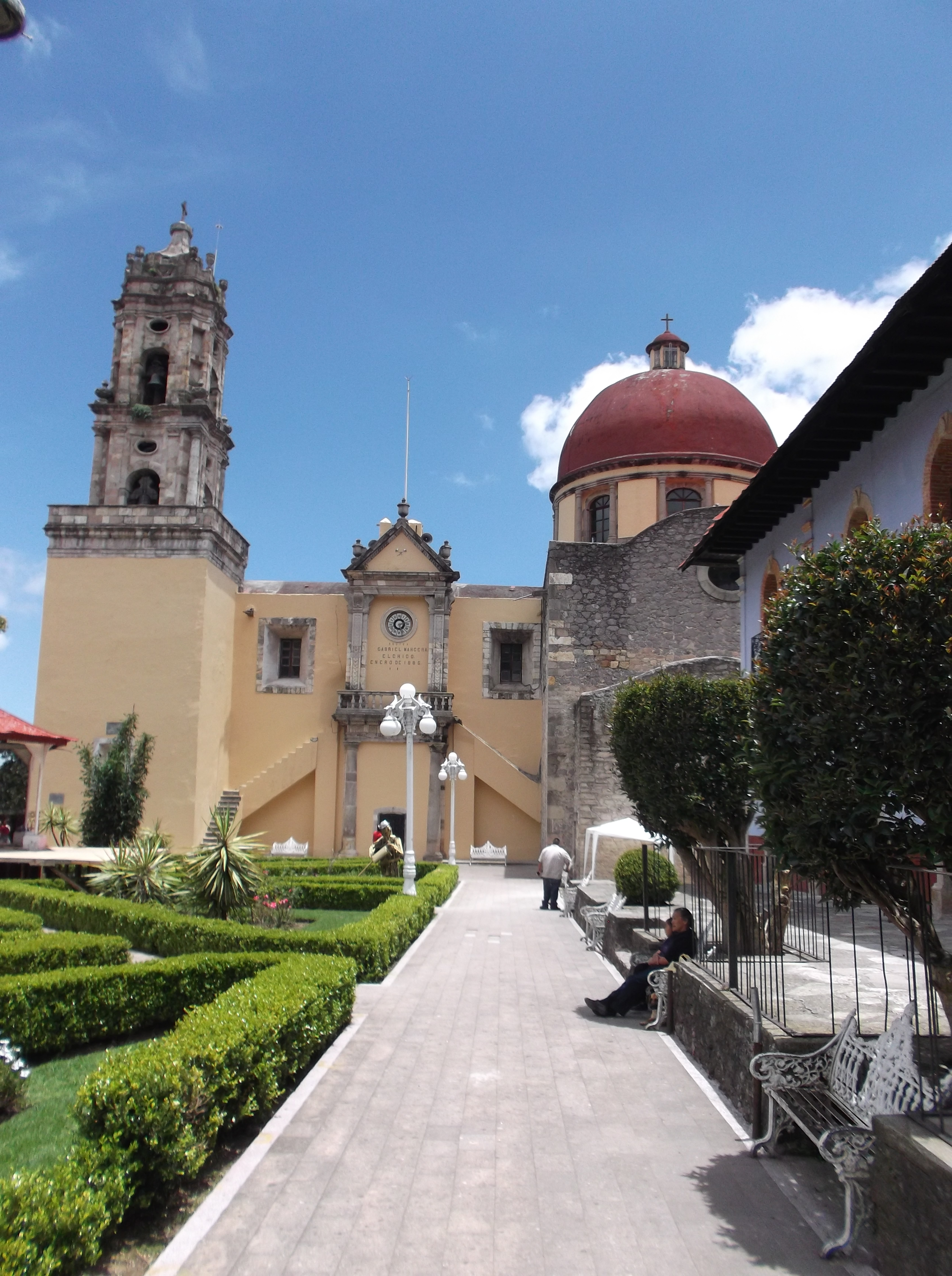 Another picture of Church Mineral del Chico